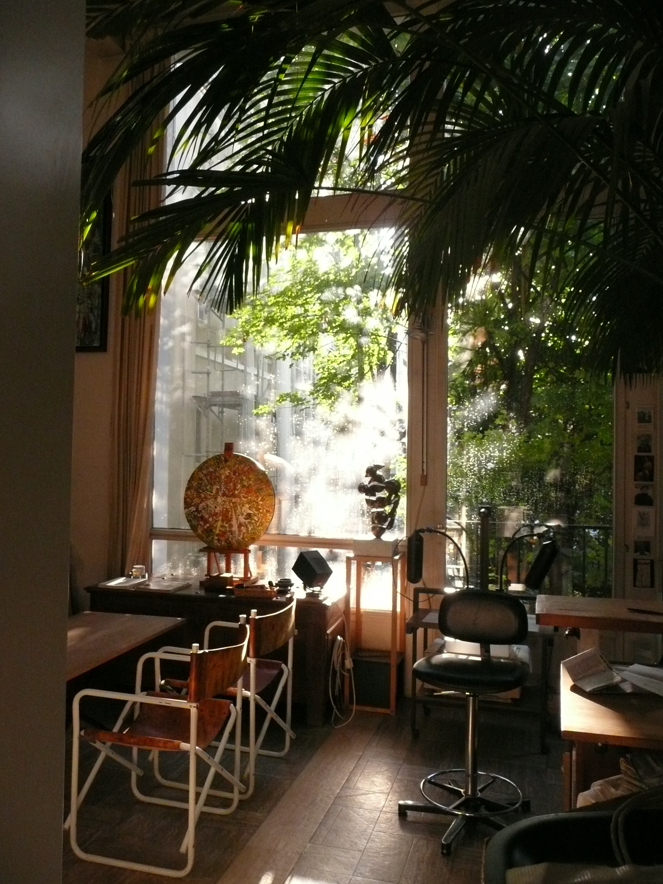 Rozsda atelier in Bateau-Lavoir, Paris